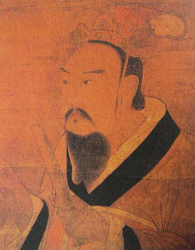 Emperor Gao of Southern Qi, Xiao Daocheng